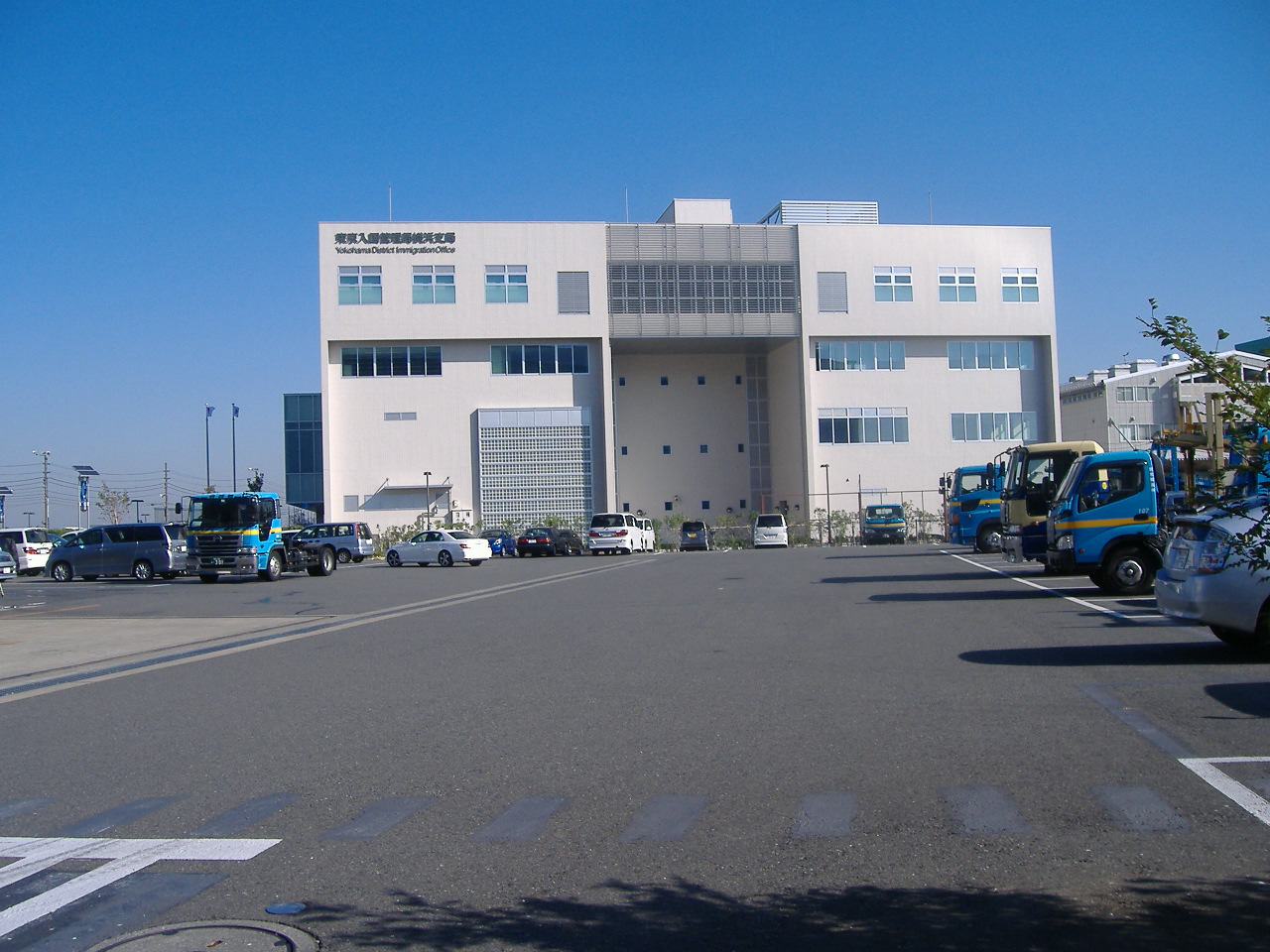 Yokohama District Immigration Office